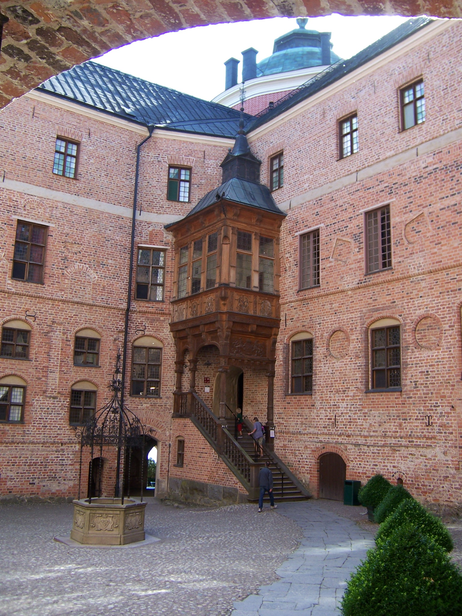 Inner courtyard of Gripsholm Castle (Sweden) own work, all rights released